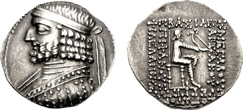 Coin of a Parthian king, minted between 75 and 62 BC.jpg